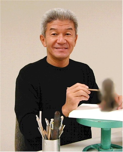 Shuhei Fujioka, master sculptor, posing while sculpting.